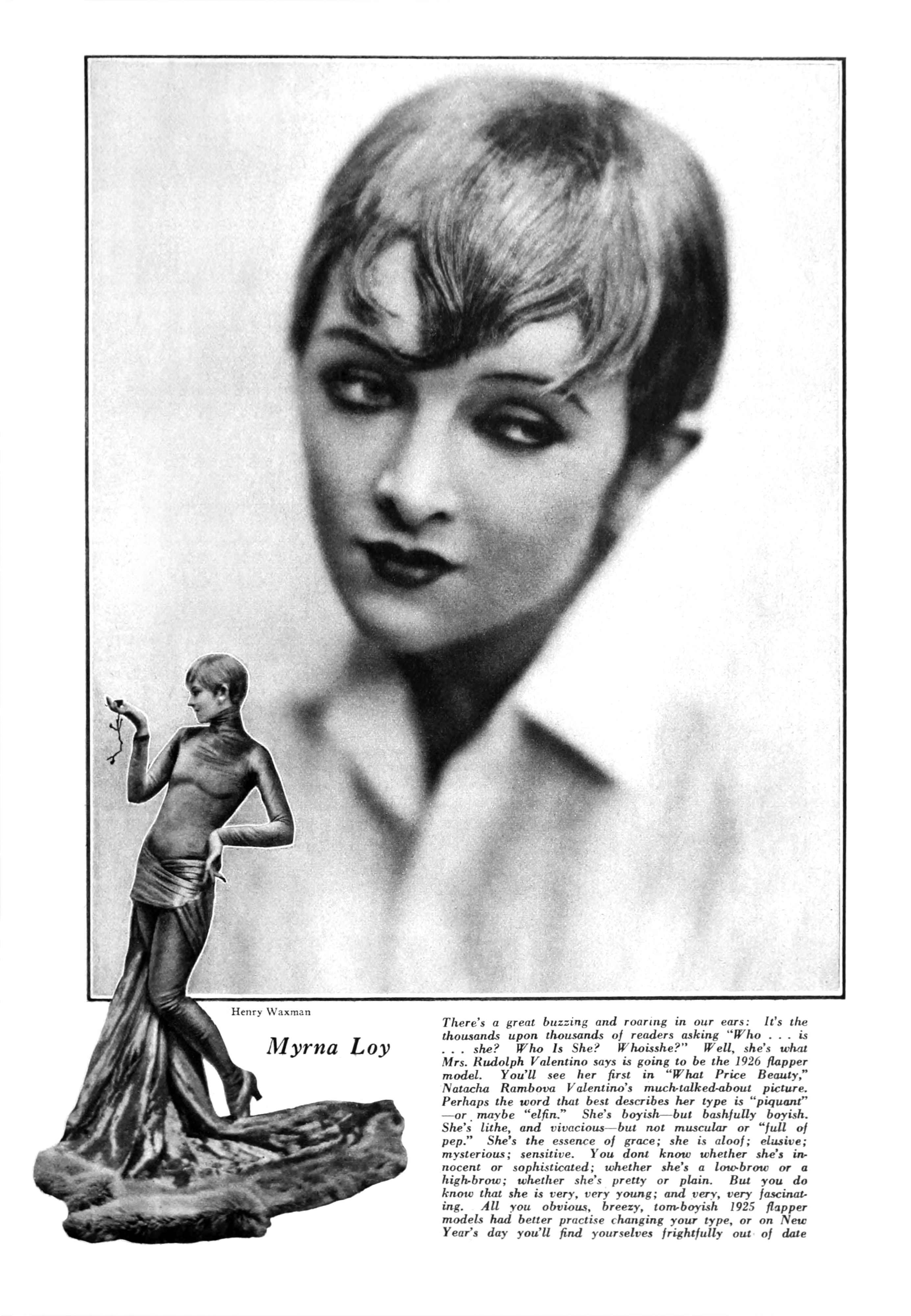 Photographs of Myrna Loy as they appeared in Motion Picture magazine